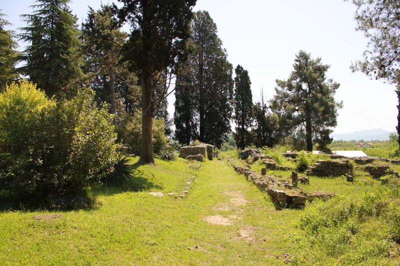 Mogorjelo